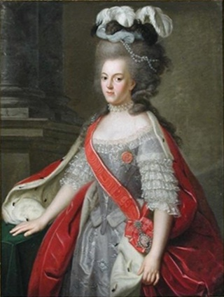 Portrait of Wilhelmina of Prussia (1751-1820), Princess of Orange